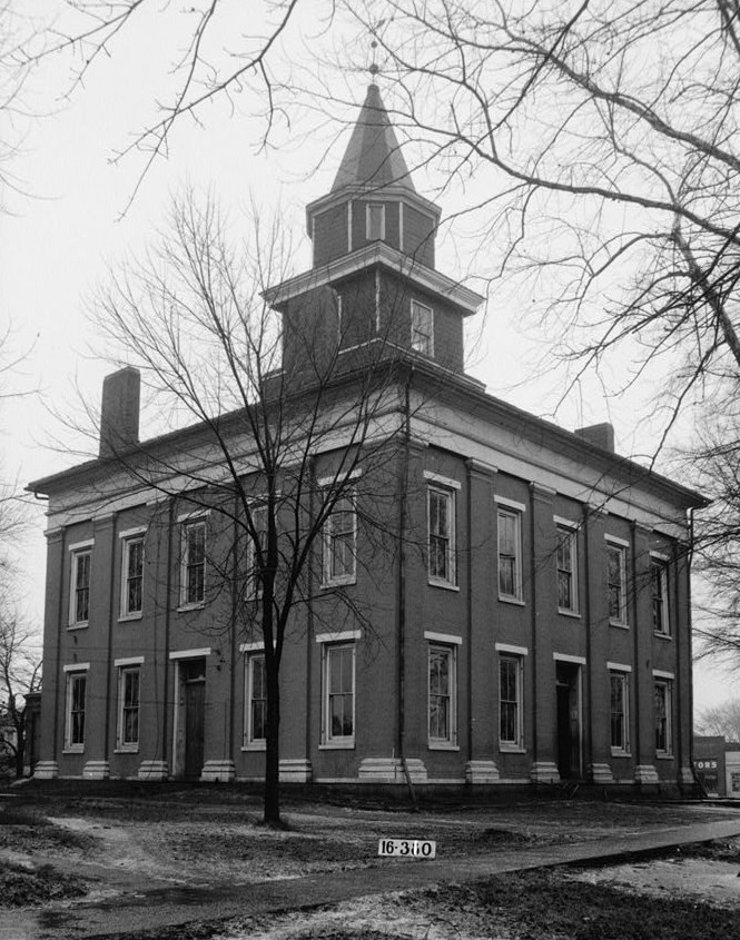 Lawrence County Courthouse, Courthouse Square bounded by Main Street, Lawrence Street, Market Street & Court Street, Moulton (Lawrence County, Alabama) cropped This was demolished about 1935 and is not the current courthouse This file comes from the Historic American Buildings Survey (HABS), Historic American Engineering Record (HAER) or Historic American Landscapes Survey (HALS). These are programs of the National Park Service established for the purpose of documenting historic places. Records consist of measured drawings, archival photographs, and written reports. When reusing please credit: Library of Congress, Prints & Photographs Division, ALA,40-MOULT,1-1 This tag does not indicate the copyright status of the attached work. A normal copyright tag is still required. See Commons:Licensing for more information. English | +/− This work is in the public domain in the United States because it is a work prepared by an officer or employee of the United States Government as part of that person’s official duties under the terms of Title 17, Chapter 1, Section 105 of the US Code. See Copyright. Note: This only applies to original works of the Federal Government and not to the work of any individual U.S. state, territory, commonwealth, county, municipality, or any other subdivision. This template also does not apply to postage stamp designs published by the United States Postal Service since 1978. (See 206.02(b) of Compendium II: Copyright Office Practices). It also does not apply to certain US coins; see The US Mint Terms of Use. This file has been identified as being free of known restrictions under copyright law, including all related and neighboring rights.